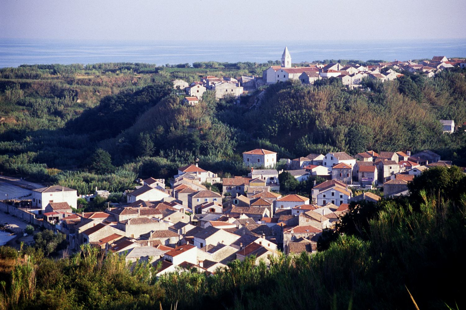 The settlement Susak was formed from two villages: Donje Selo (also known as Spjaža) and Gornje Selo on the Croatian island of Susak.